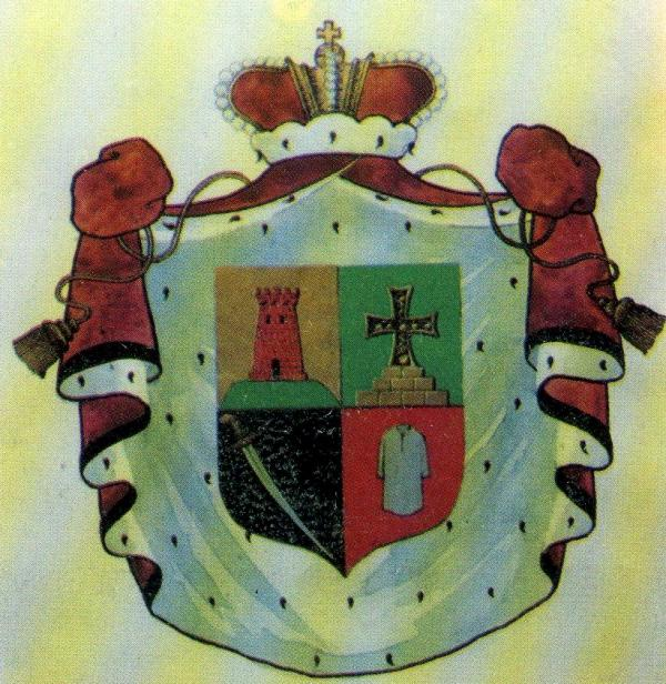 Amirejibi gerb